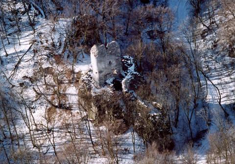 Castle of Bátorkő (or Pusztapalota) in winter near Várpalota, Hungary.